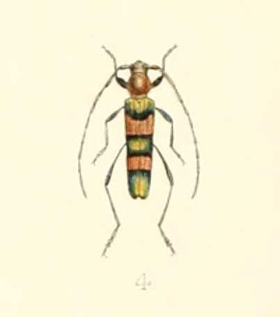 « Polyzonus dohertyi » = Polyzonus dohertyi